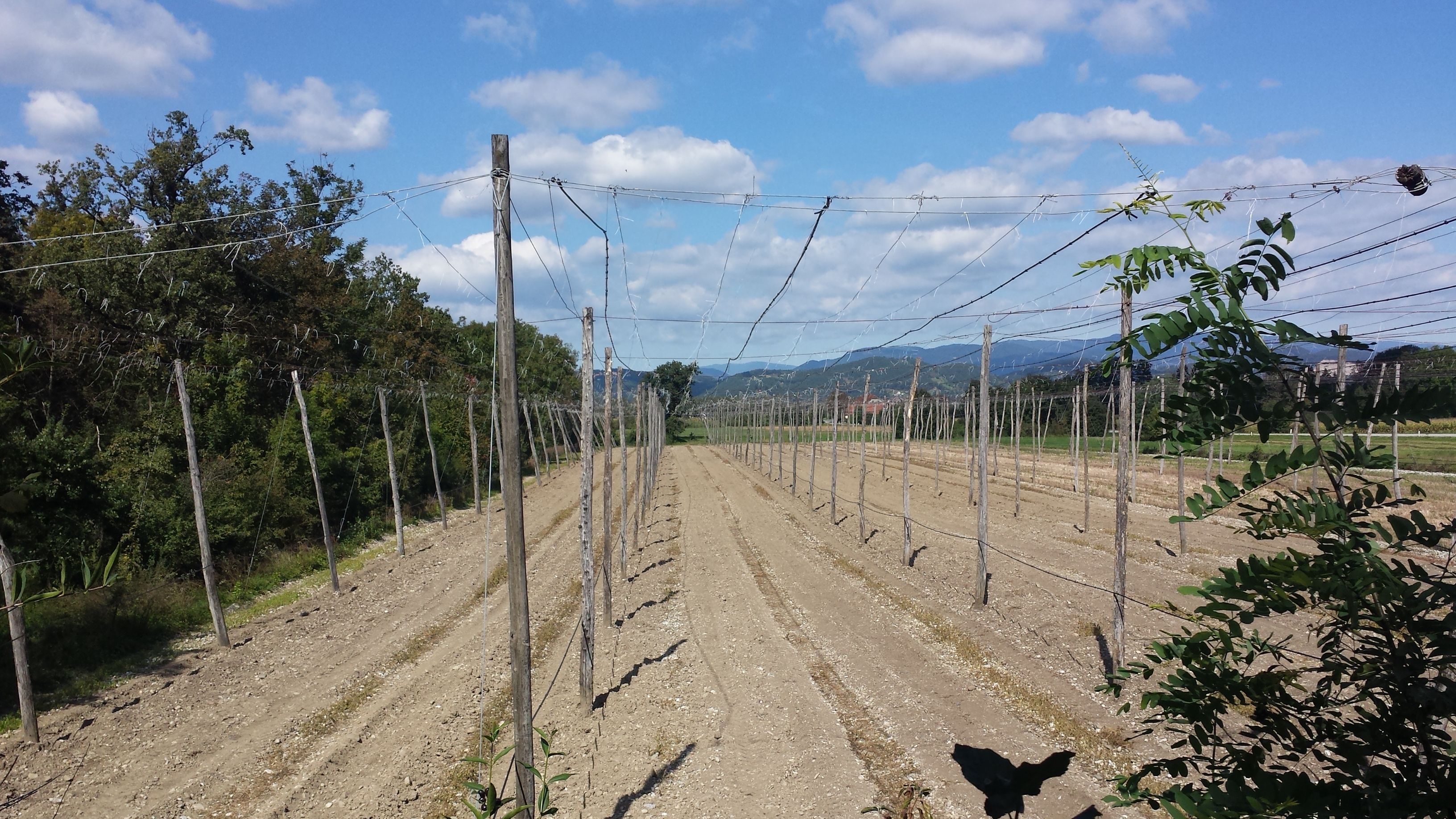 Green Valley Zupanc Plac Šešče pri Preboldu football